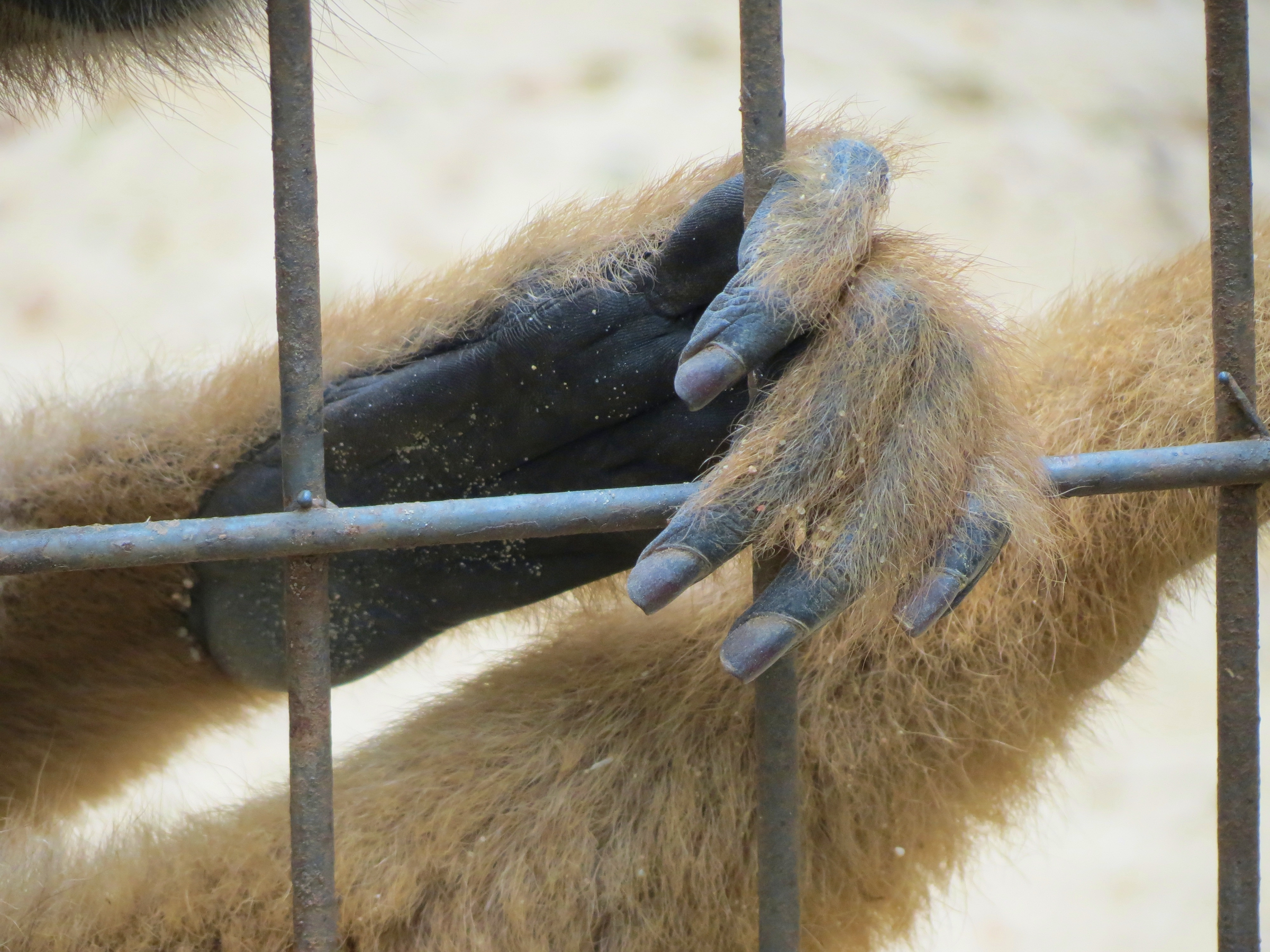 A hand of Southern muriqui (Brachyteles arachnoides). This species hasn't thumb, while B. hypoxanthus has a vestigial or small thumb.